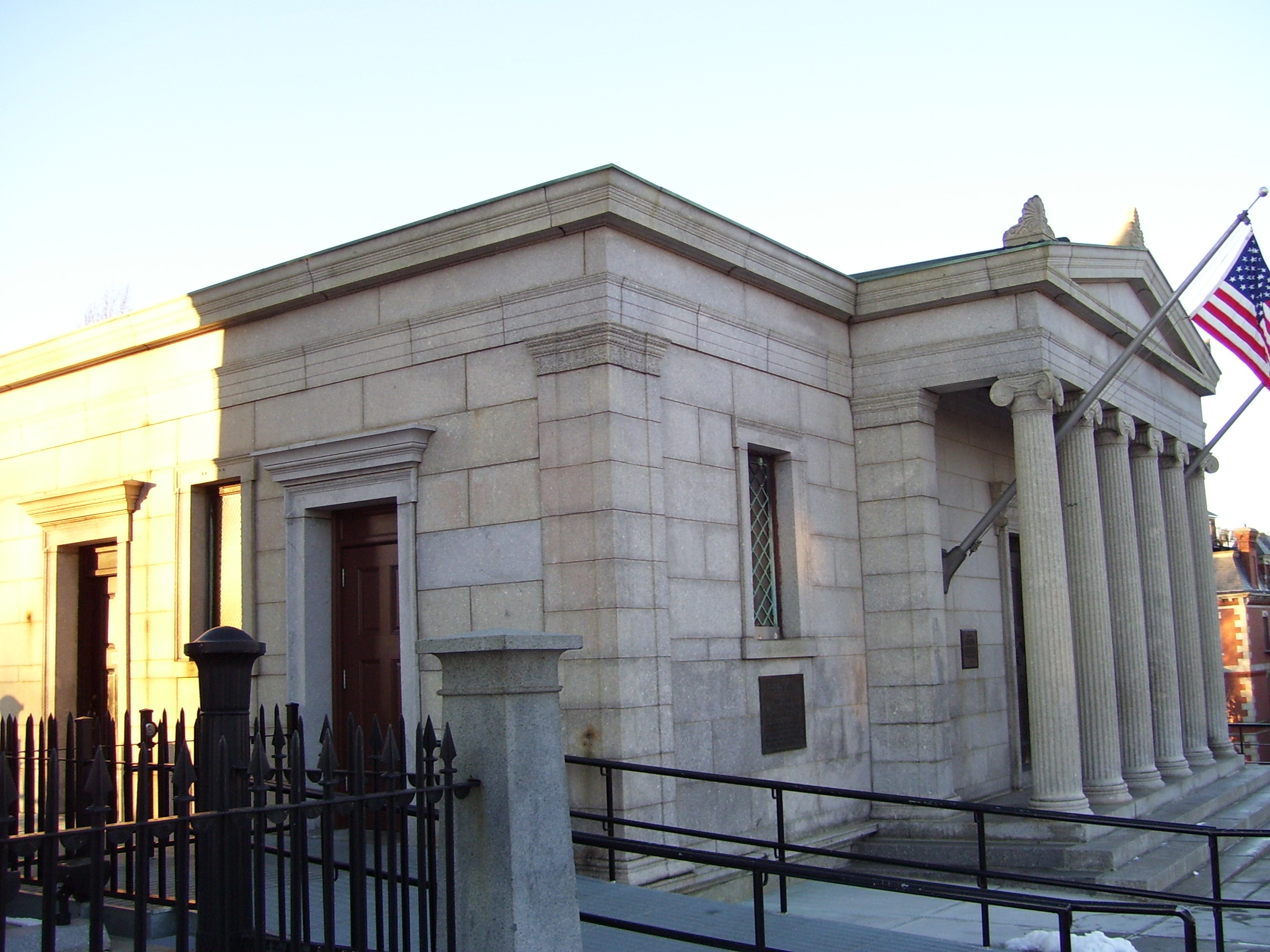 I photographed this image of the Masonic building at the base of the Bunker Hill Monument in Charlestown, Massachusetts on Jan. 28, 2008.